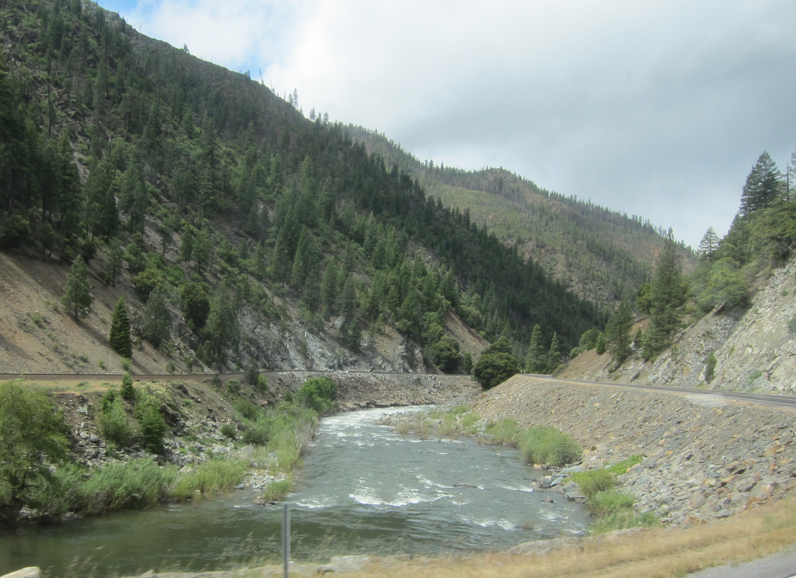 East Branch North Fork Feather River, east of Belden, view from Highway 70.